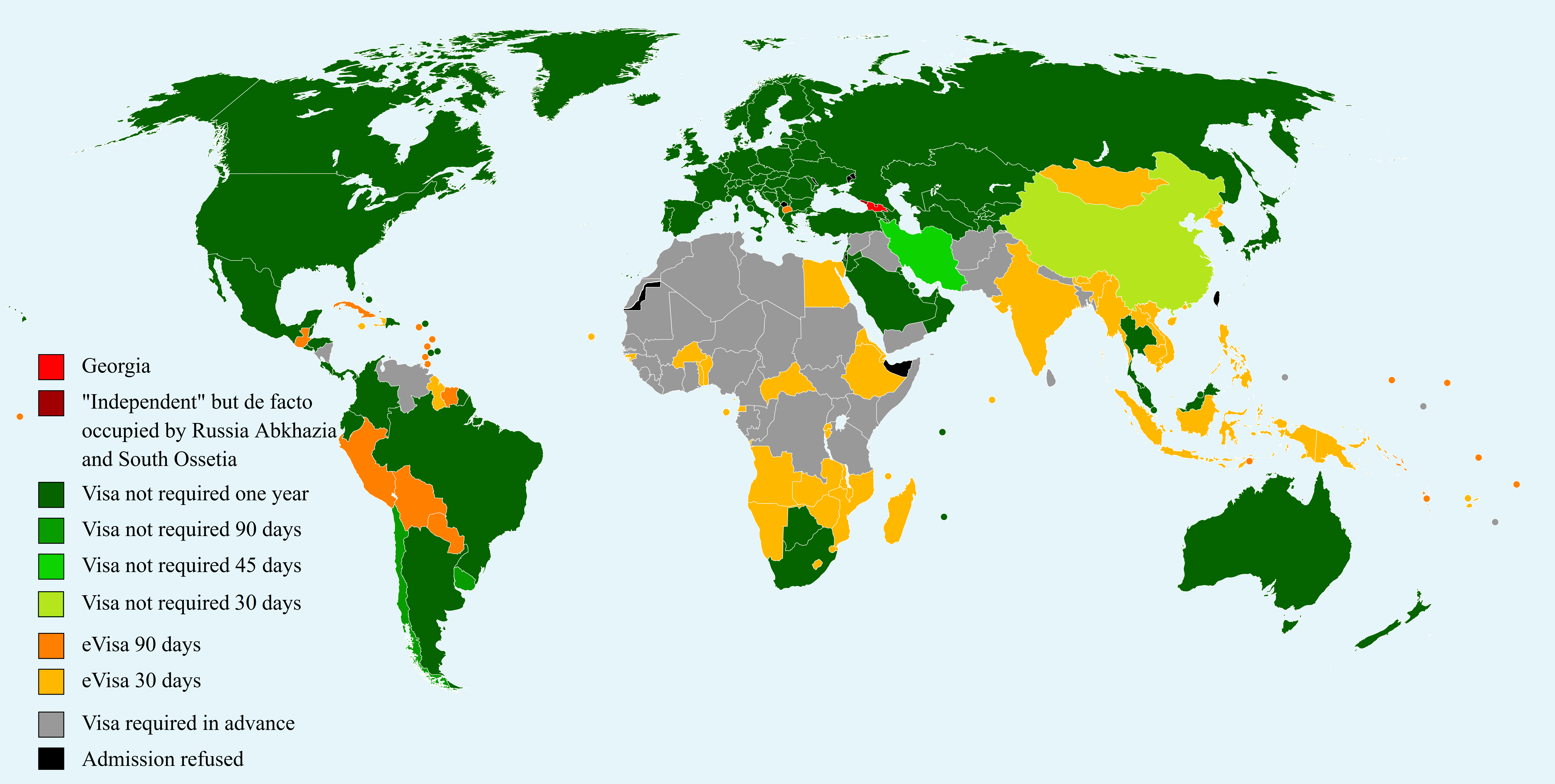 Visa policy of Georgia Georgia Visa-free eVisa (90 days within 180 days) eVisa (30 days within 120 days) Visa required